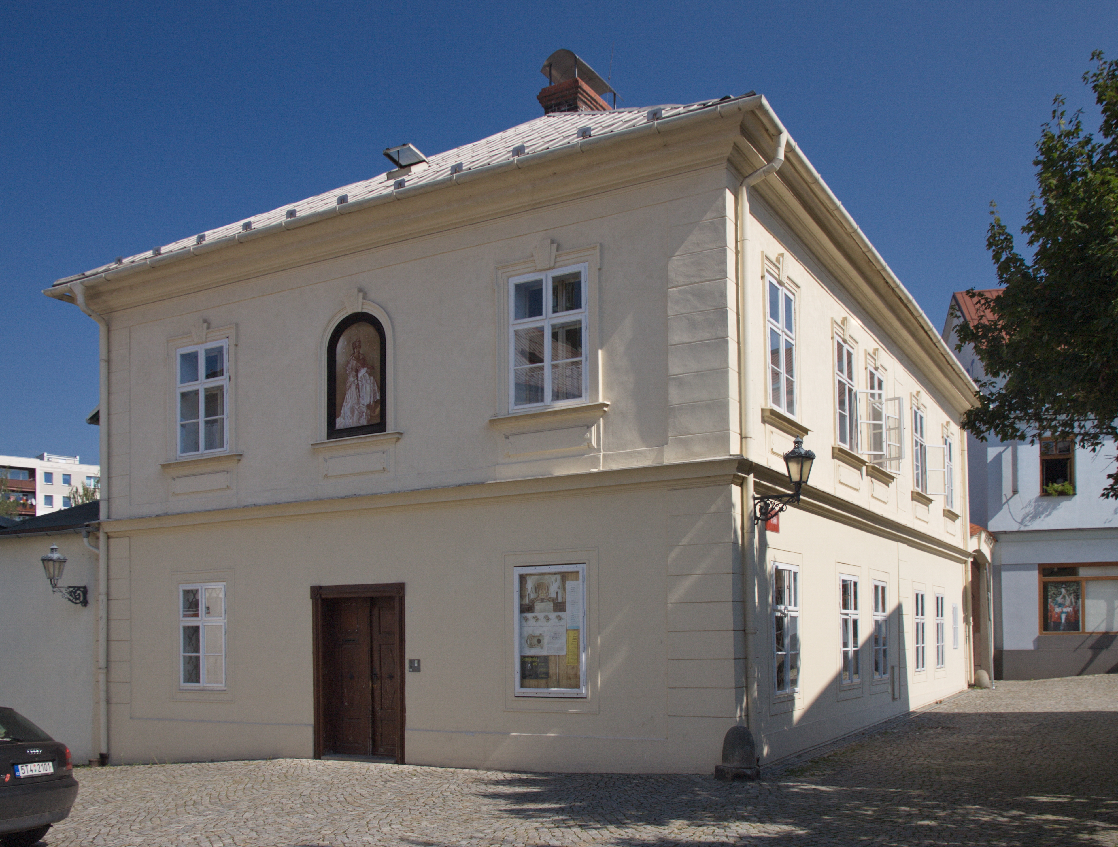 Rectory, 1 Farní street, Frýdek-Místek. Moravian-Silesian Region, Czech Republic.